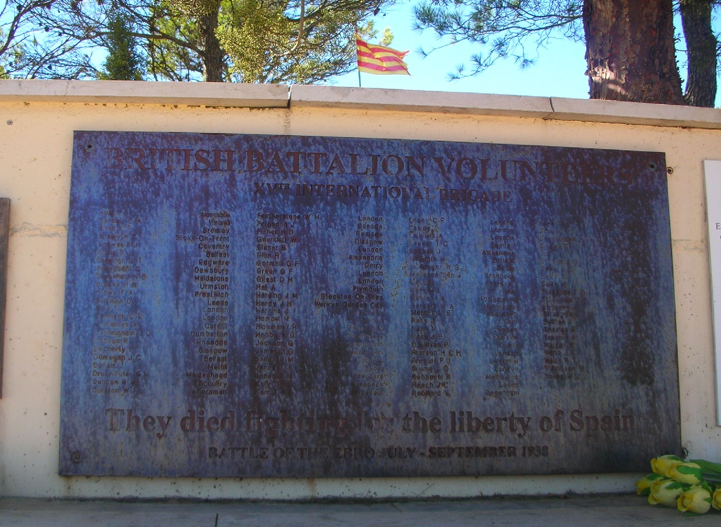 Plaque honoring the fallen British volonteer soldiers who died in the Ebro Battle defending the Spanish Republic at the monument on cota 705, Serra de Pàndols